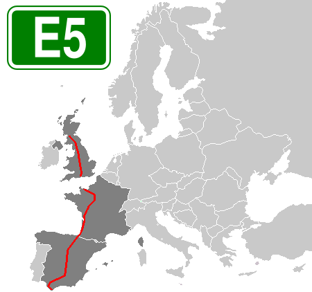 European route E5 within Great Britain, France and Spain.Carretera europea E5 en Gran Bretaña, Francia y España.